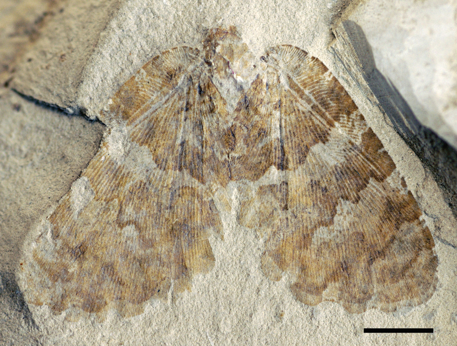 Undulopsychopsis alexi gen. et sp. n. The holotype CYNB044. Photograph. Scale bar = 5 mm.